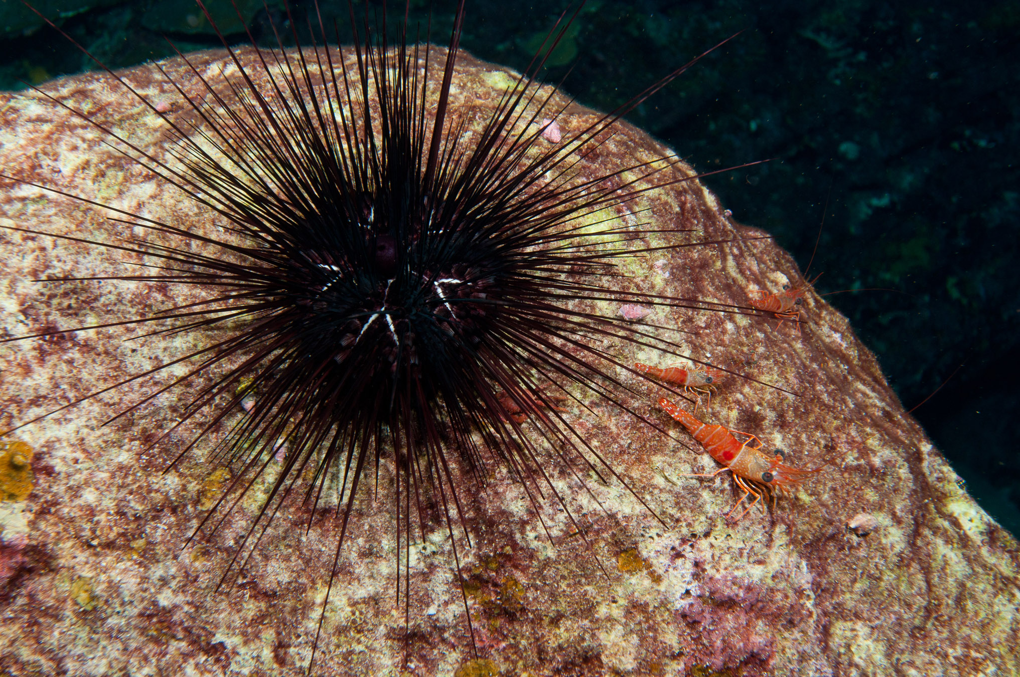 A diadem sea urchin (Diadema antillarum) at the Flower Garden Banks National Marine Sanctuary (NOAA picture).